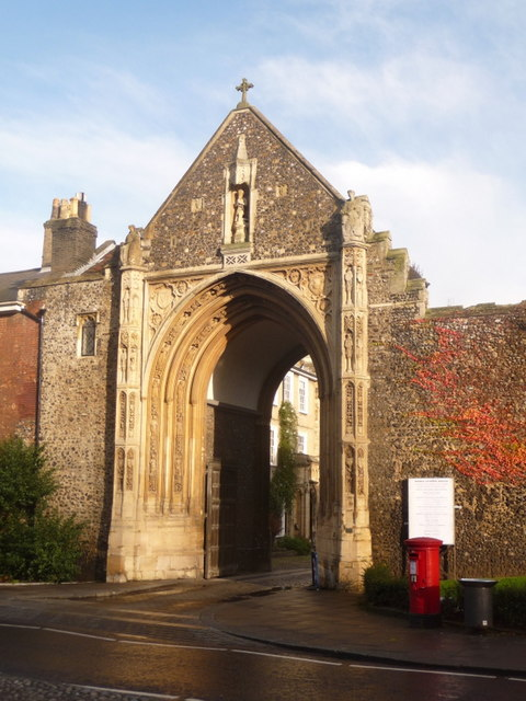 Norwich: Erpingham Gate and postbox № NR3 307, Tombland This large, George VI-reign postbox stands outside this gateway to the cathedral close and is emptied finally at 6:30am on weekdays and at 11am on Saturdays.